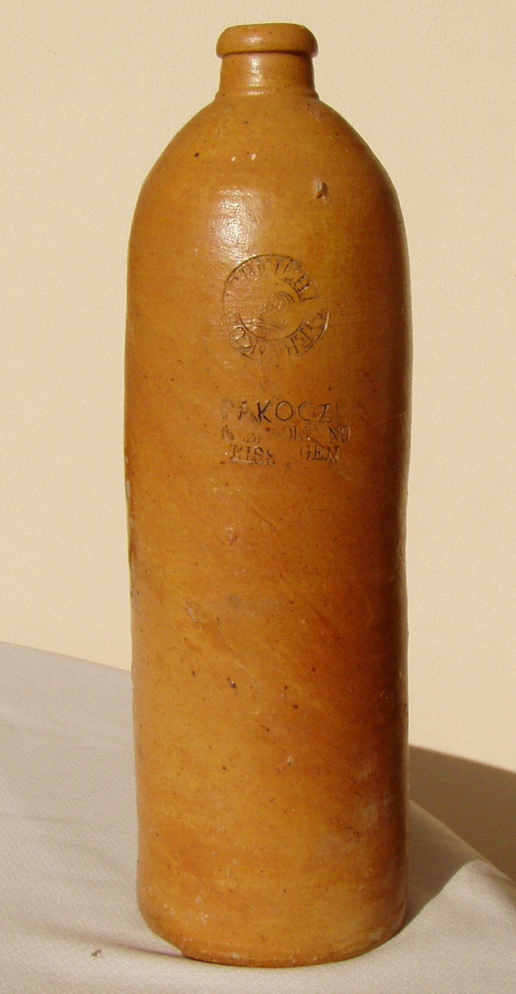 Stoneware jar for transport of Rákóczi mineralwater, Logo: Brothers Bolzano, Bad Kissingen, Germany (about 1830)